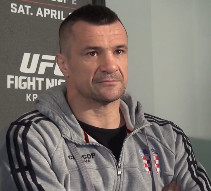 Mirko Cro Cop being interviewed.